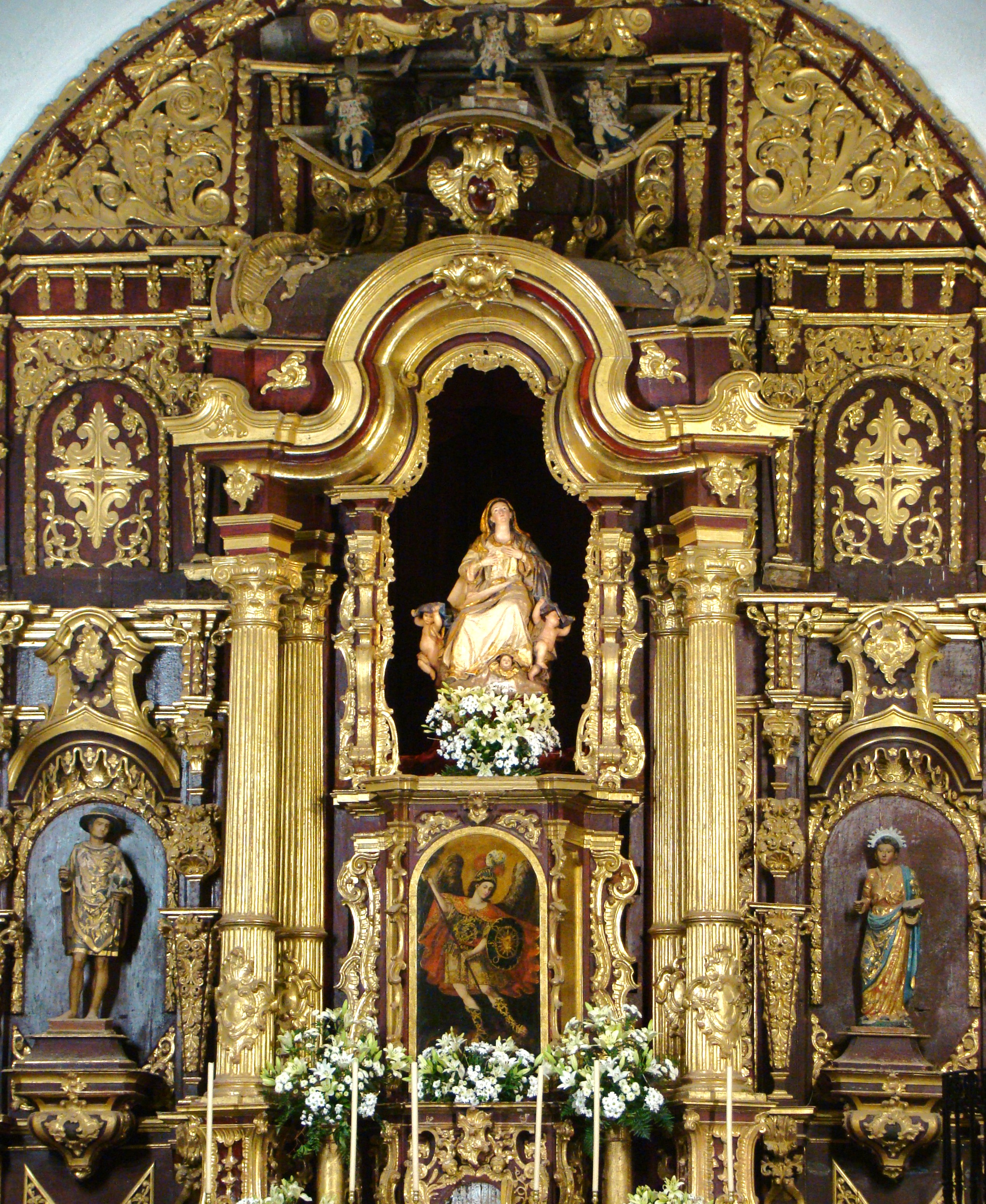 Retablo Santa Maria de Fregenal